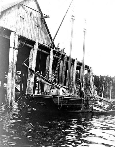 From John Cobb field notebook: Halibut schooner Christine at wharf, Tee Harbor, Alaska. June 25, 1907 Subjects (LCTGM): Piers & wharves--Alaska--Tee Harbor; Fishing boats--Alaska--Tee Harbor Subjects (LCSH): Schooners--Alaska; Christine (Schooner); Halibut fisheries--Alaska--Tee Harbor; Wharves--Alaska--Tee Harbor